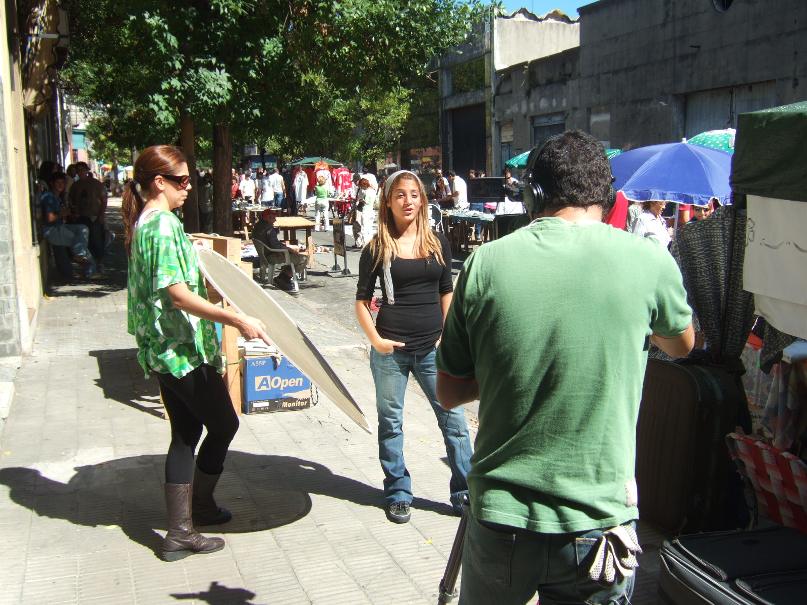 Montevideo, Uruguay